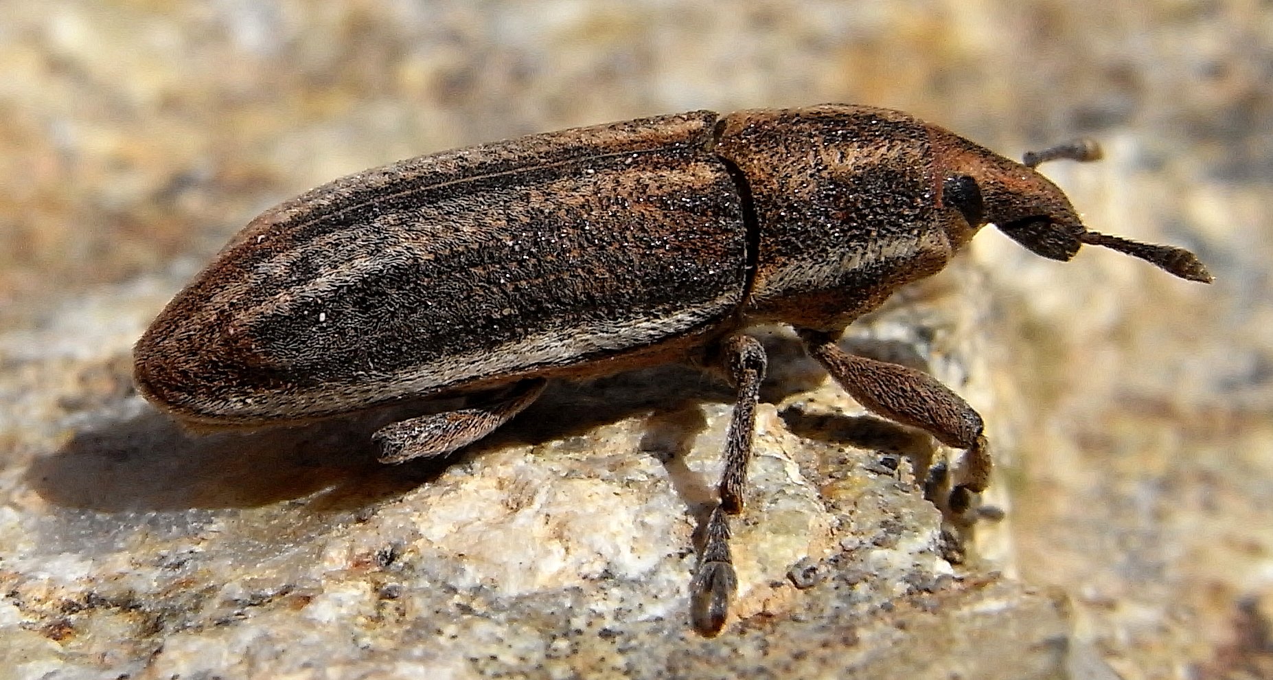 Lixus spartii Ricoh R8